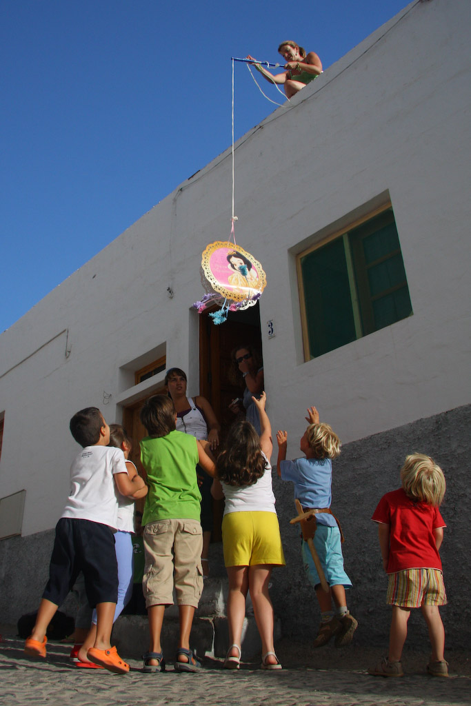 A commercial Piñata in the Canary Islands